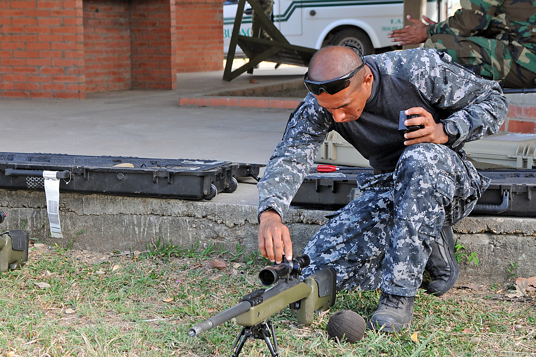 A sniper from Panama prepare his weapon to compete in the FBI “T” Shoot event during the Fuerzas Comando competition at Fort Tolemaida, Colombia July 24. Panama is one of 17 nations participating in the competition.